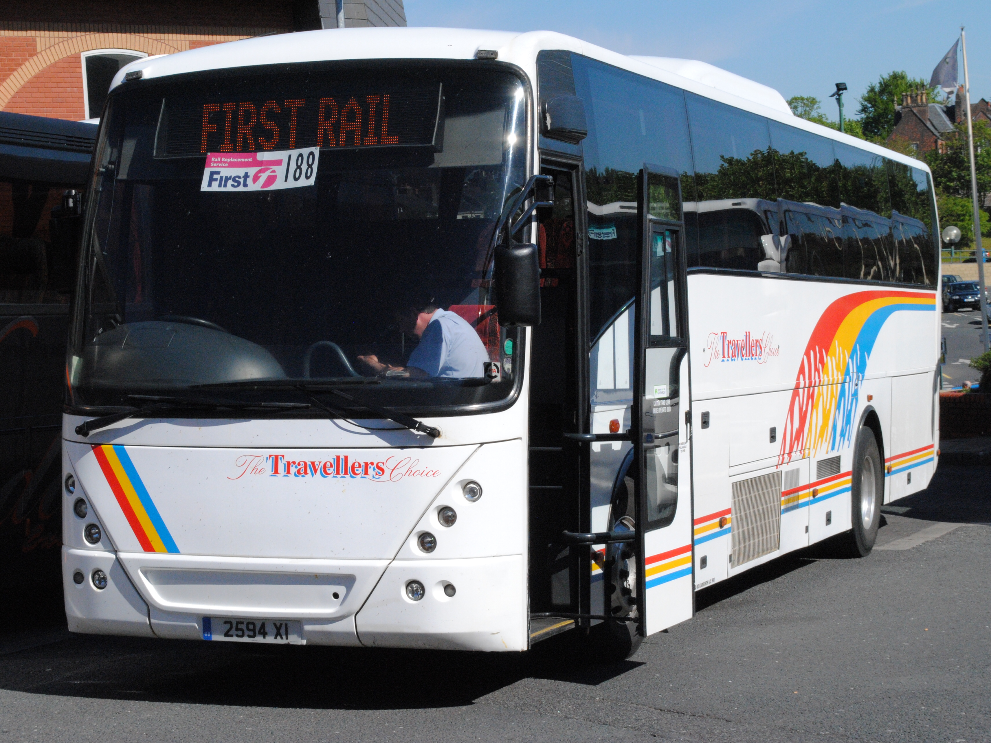 Volvo B12M Jonckheere. new to Wallace Arnold YC02DGF. seen here outside Preston Rail Station on rail replacement